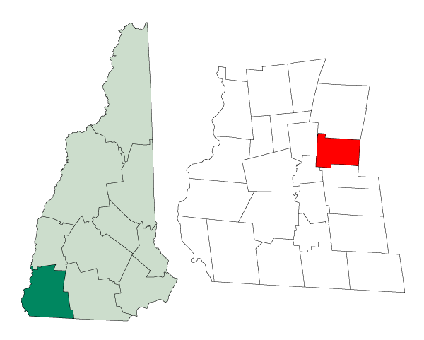 Map of a municipality in Cheshire County, New Hampshire